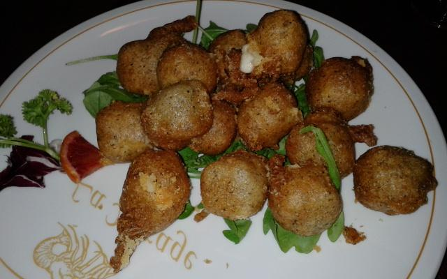 Warm Sciatt with Rocket Salad. Dish from Valtellina.